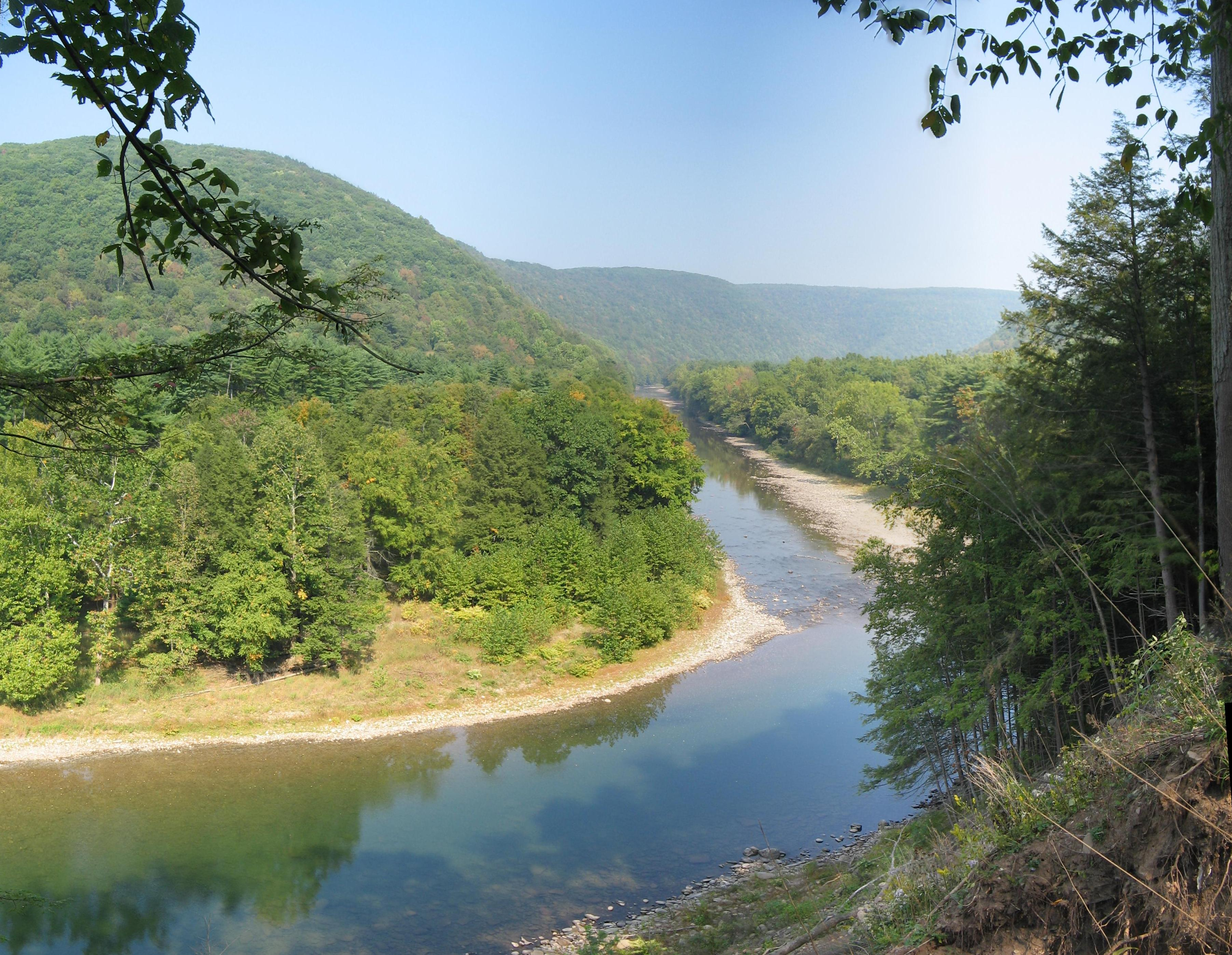 Loyalsock Creek from Pennsylvania Route 87, between Little Bear and Bear Creeks, Plunketts Creek Township, Lycoming County, Pennsylvania, USA